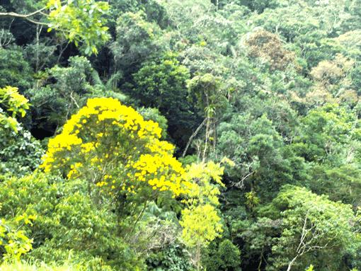 a preserved area called macae de cima forest two hours from rio de janeiro, brazil, near muri village, 20 minutes from nova friburgo center, an ecologic sanctuary, full of monkeys, snakes, birds that can only be found here, a part of the atlantic forest - in the beginning 100% of the territory, now only 20% of total area.